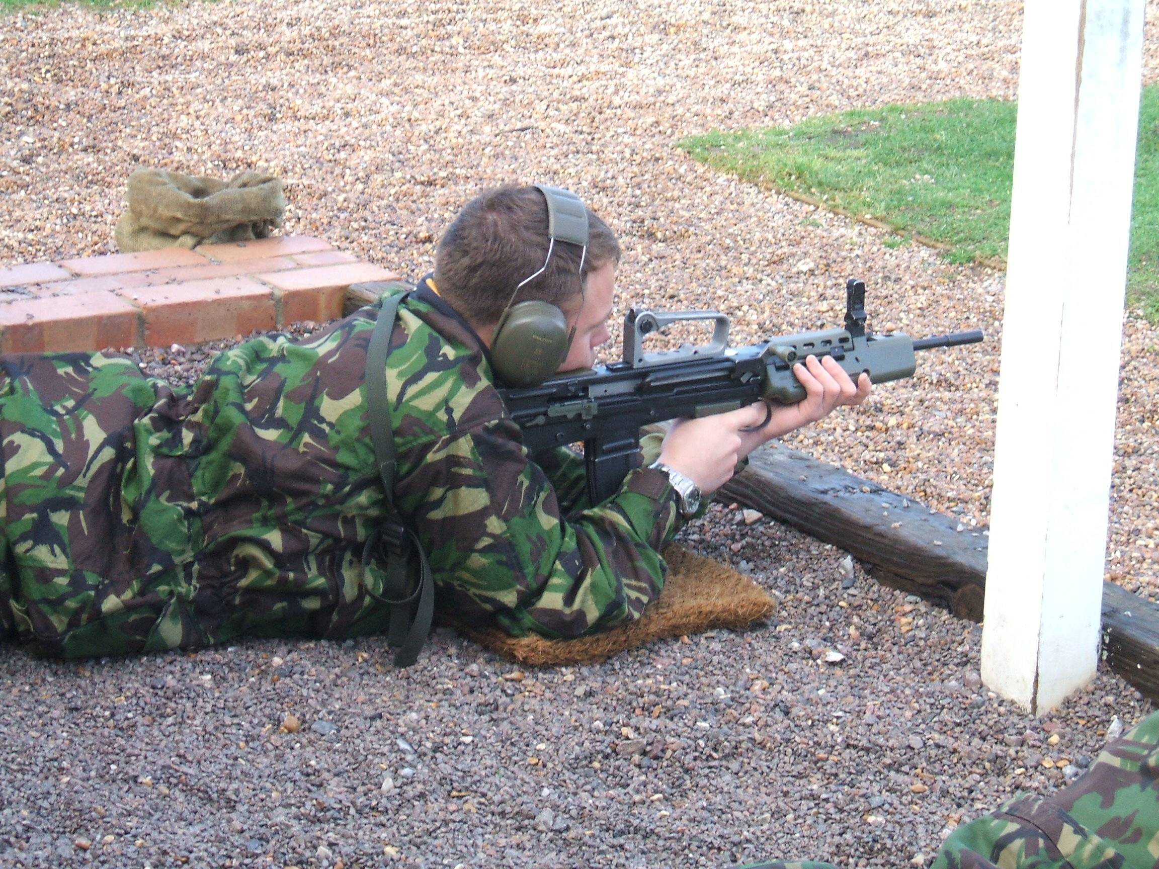 Petty Officer Cadet (SCC) A Nolton at Tipner range complex near HMS Excellent with a L98A1 Cadet GP rifle in January 2007